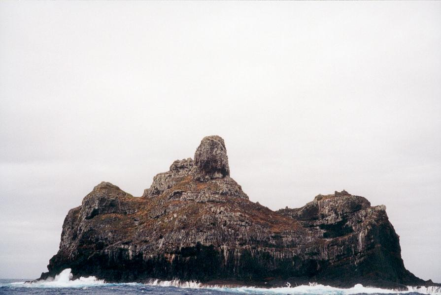 South islet of Marotiri (or Bass) islands, near Rapa, French Polynesia